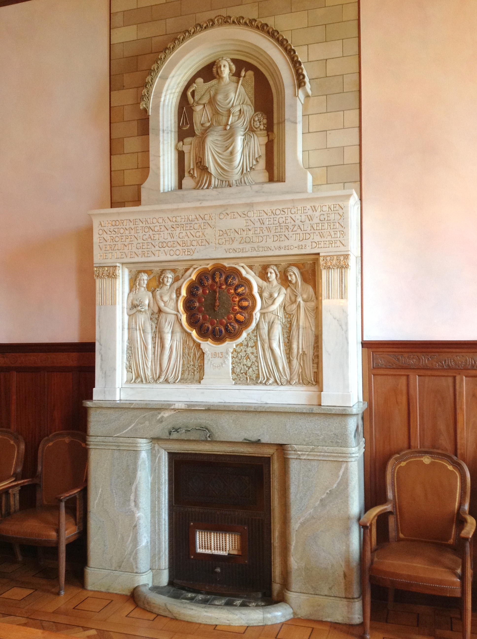 The clock in the executive room of the Amsterdam Stock Exchange